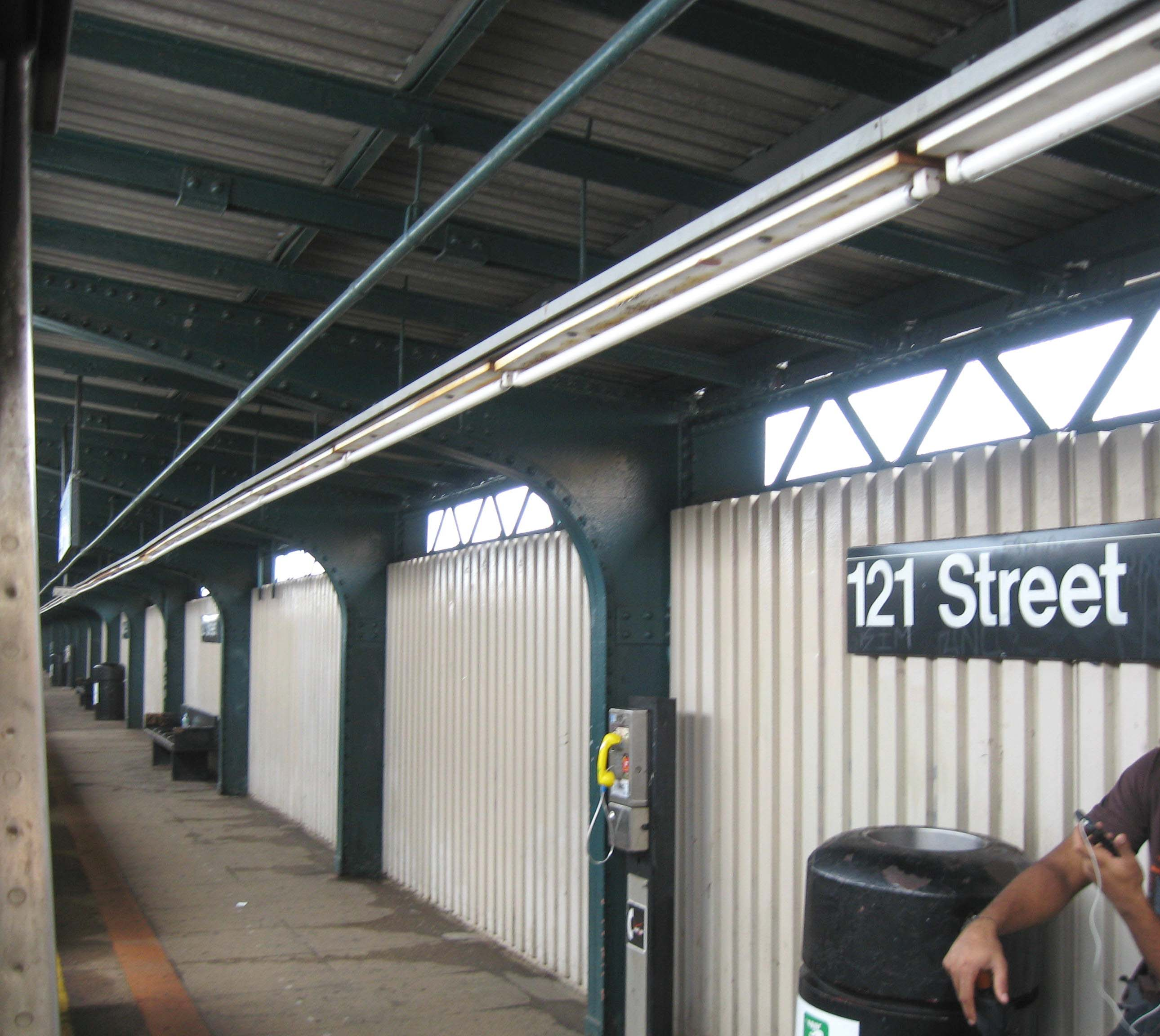 Looking east on northbound platform of 121st Street (BMT Jamaica Line) on a rainy midday.